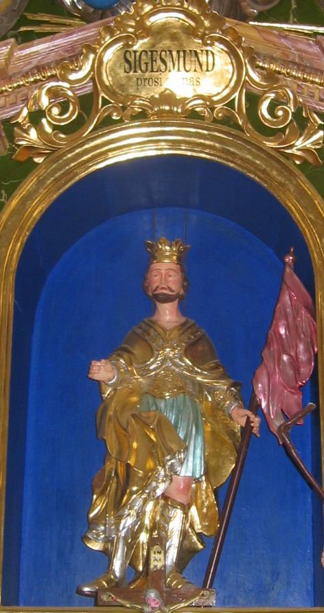 Sigismund of Burgundy (slovenian: Sveti Sigismund or St. Žiga), saint's sculpture in the only church of St. Žiga, Slovenia . photo:Ziga 20:26, 1 April 2007 (UTC)